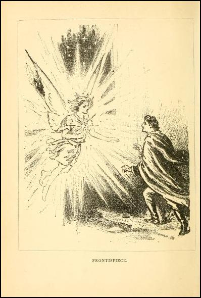 Frontispiece to Edward Bulwer-Lytton's book Zanoni, 1888 ed.